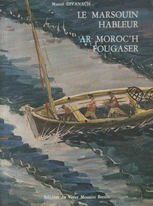 Marcel Divanach (1908-1978), book title, front cover, painting from Marcel Divanach (1908-1978)